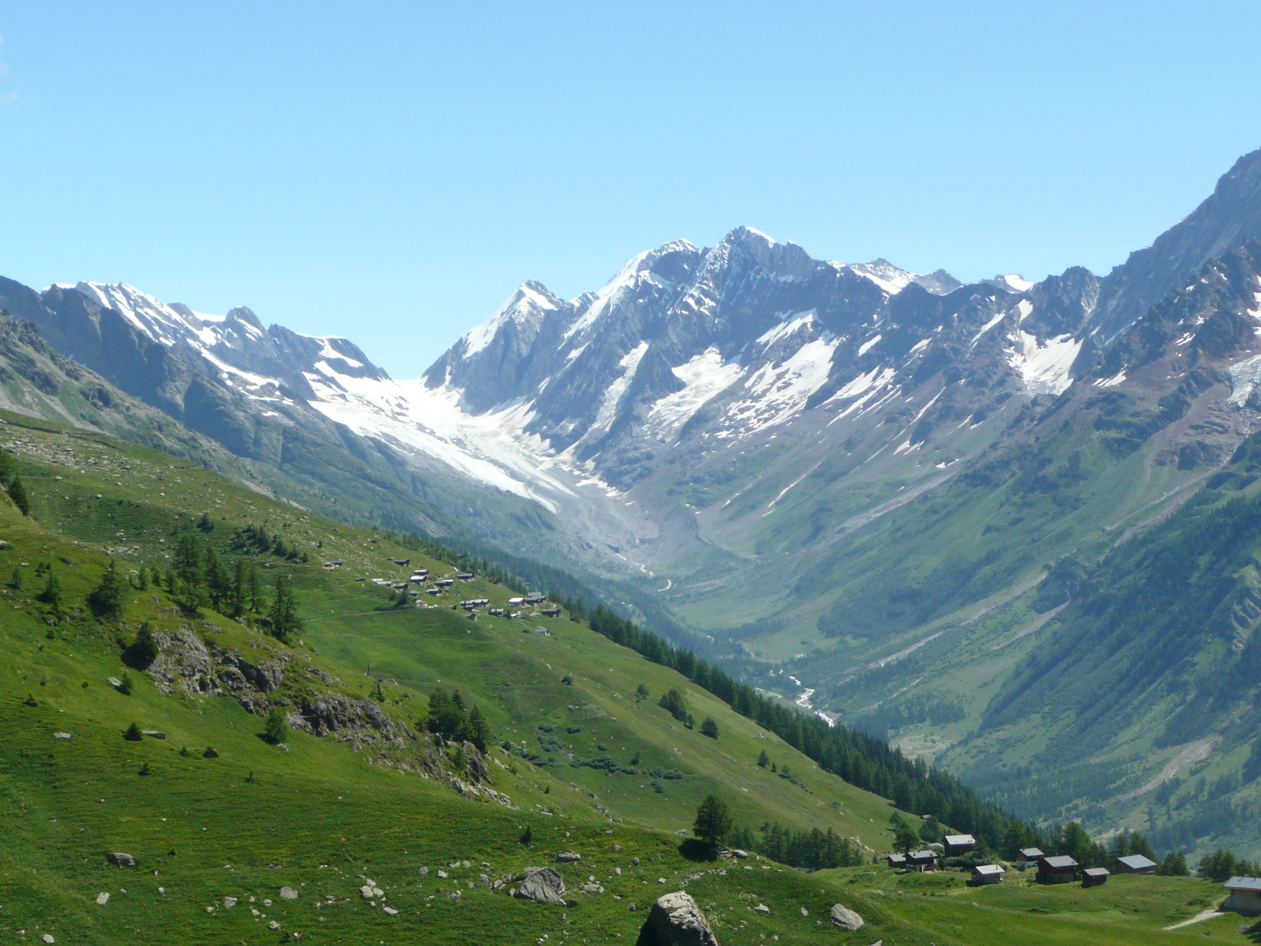 View from Lauchenalp towards Lötschenlücke. To its right: Sattelhorn, Aletschhorn (actually behind the ridge), Schirnhorn. Northeastridge of Lötschentaler Breithorn on the far right. Valais, Switzerland